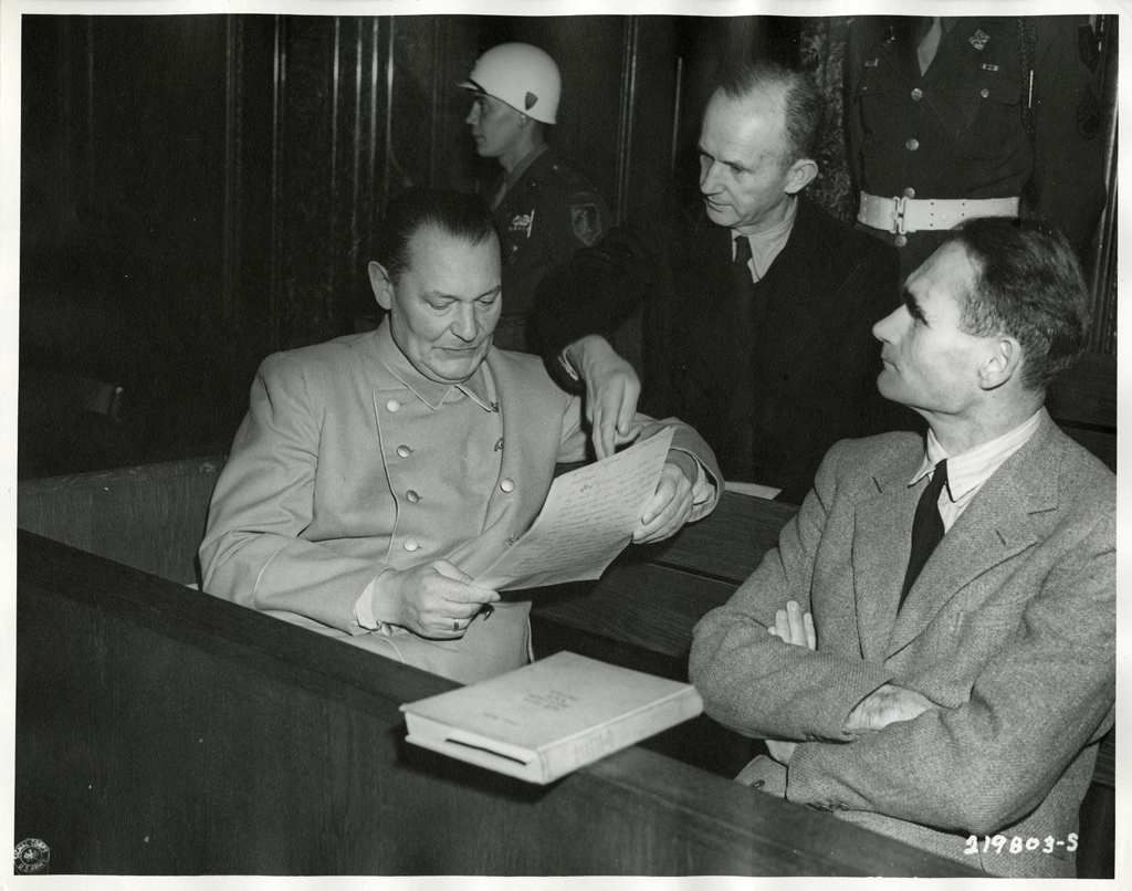 Defendants Hermann Göring, Karl Dönitz, and Rudolf Hess confer, while examining a document, in the dock at the courtroom at the Nuremberg Trials. Two military policemen stand behind them. 28 x 35.3 cm. Gelatin silver process on paper. Image courtesy of the Harvard Law School Library, Harvard University, Cambridge, Mass.